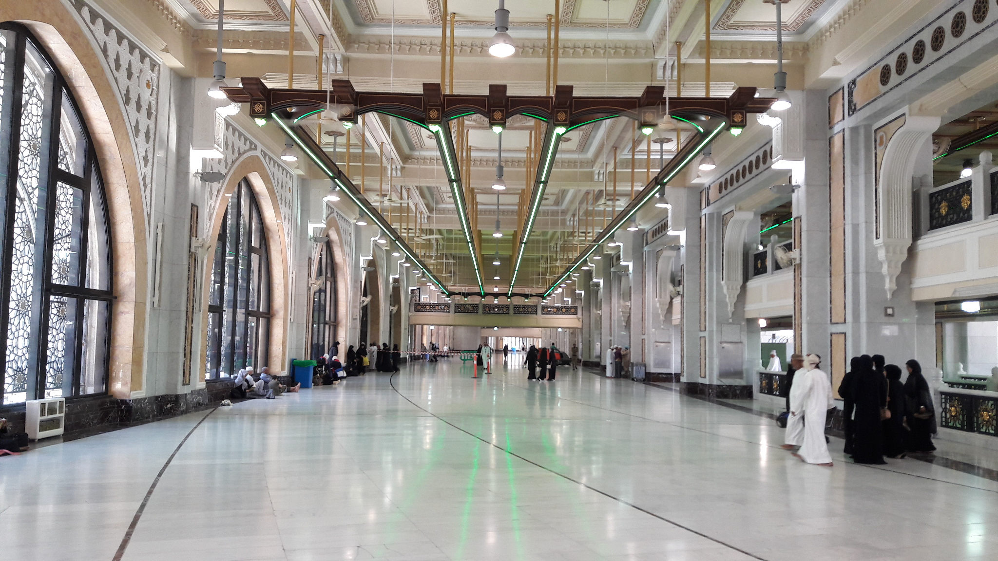 Mas'aa